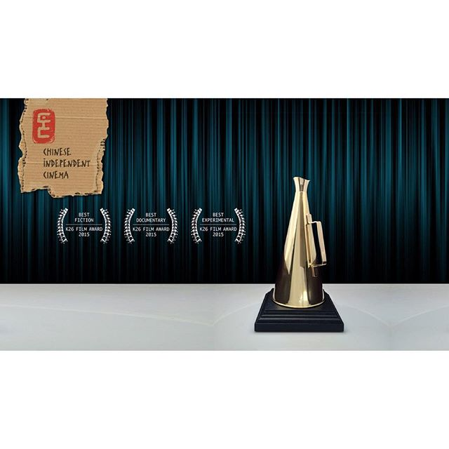 K26 Award for Independent Film